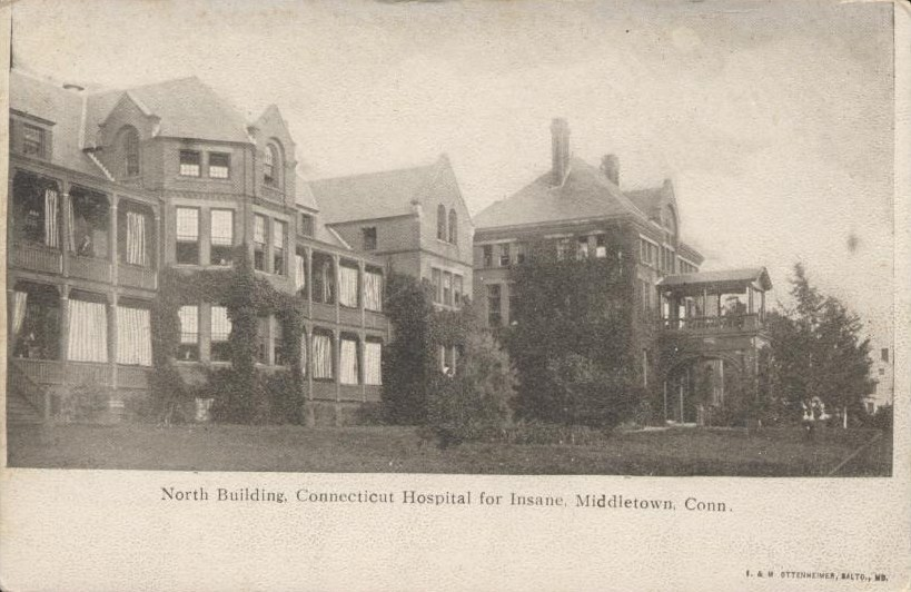 Postcard picture of Connecticut Hospital for the Insane (later Connecticut Valley Hospital) in Middletown, Connecticut; 1906 postmark, according to eBay store Web page; published by "I & W. Ottenmeyer, Balto., Md." -- not sure about name of publisher (hard to read)